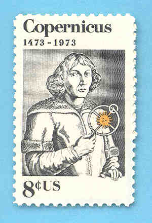 1973 US stamp honoring Copernicus